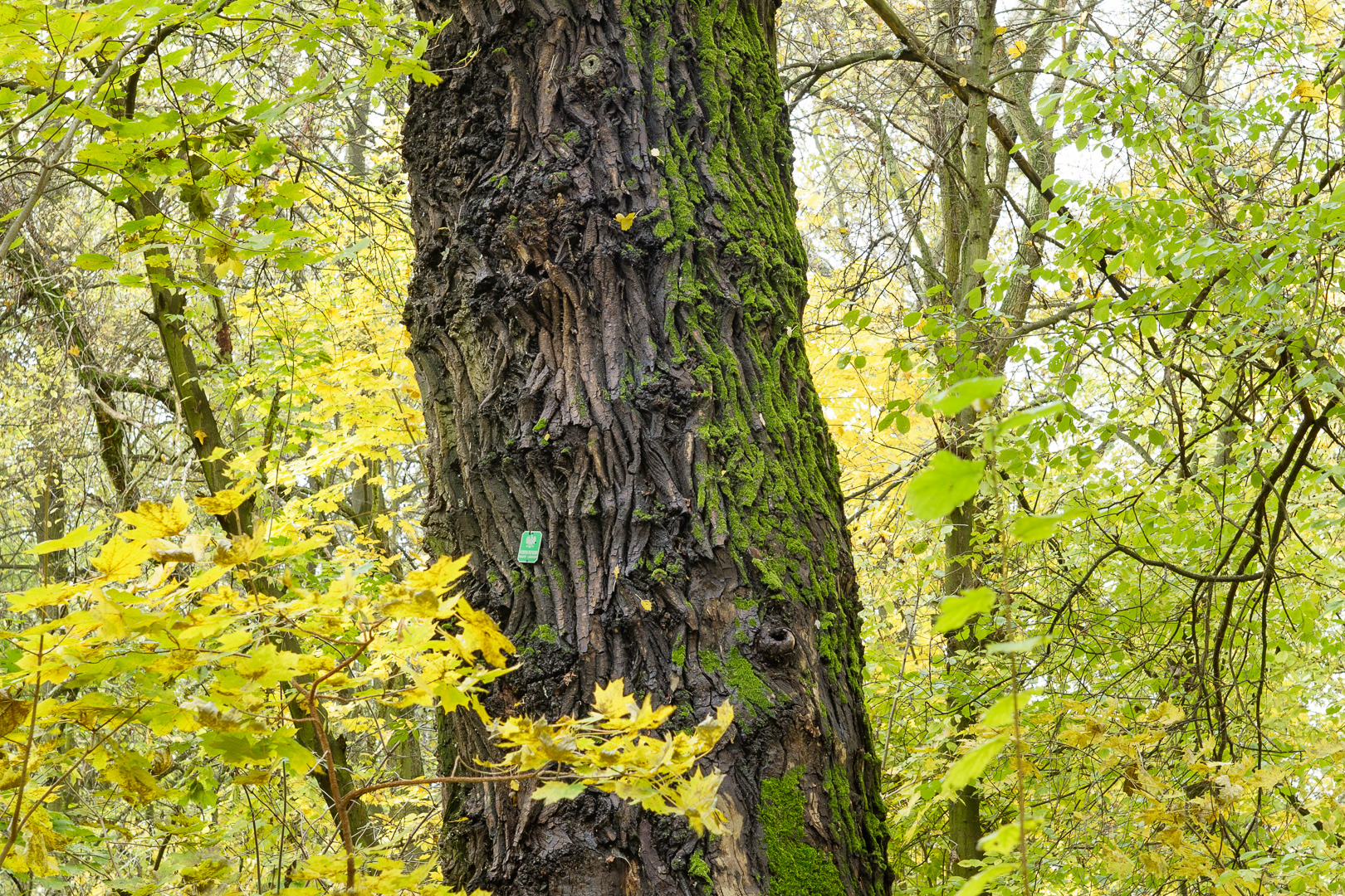 Morysin nature reserve and Morysin park in the overlapping area - a white poplar Populus alba, one of trees of the natural monument. Wilanów, Warsaw, Poland. The mosses grow on the northern side of the trunk. This photograph shows a natural monument of Poland registered under number 371 (list)